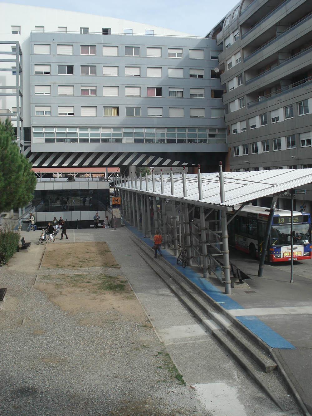 View of Arènes forum (south part), Toulouse, France